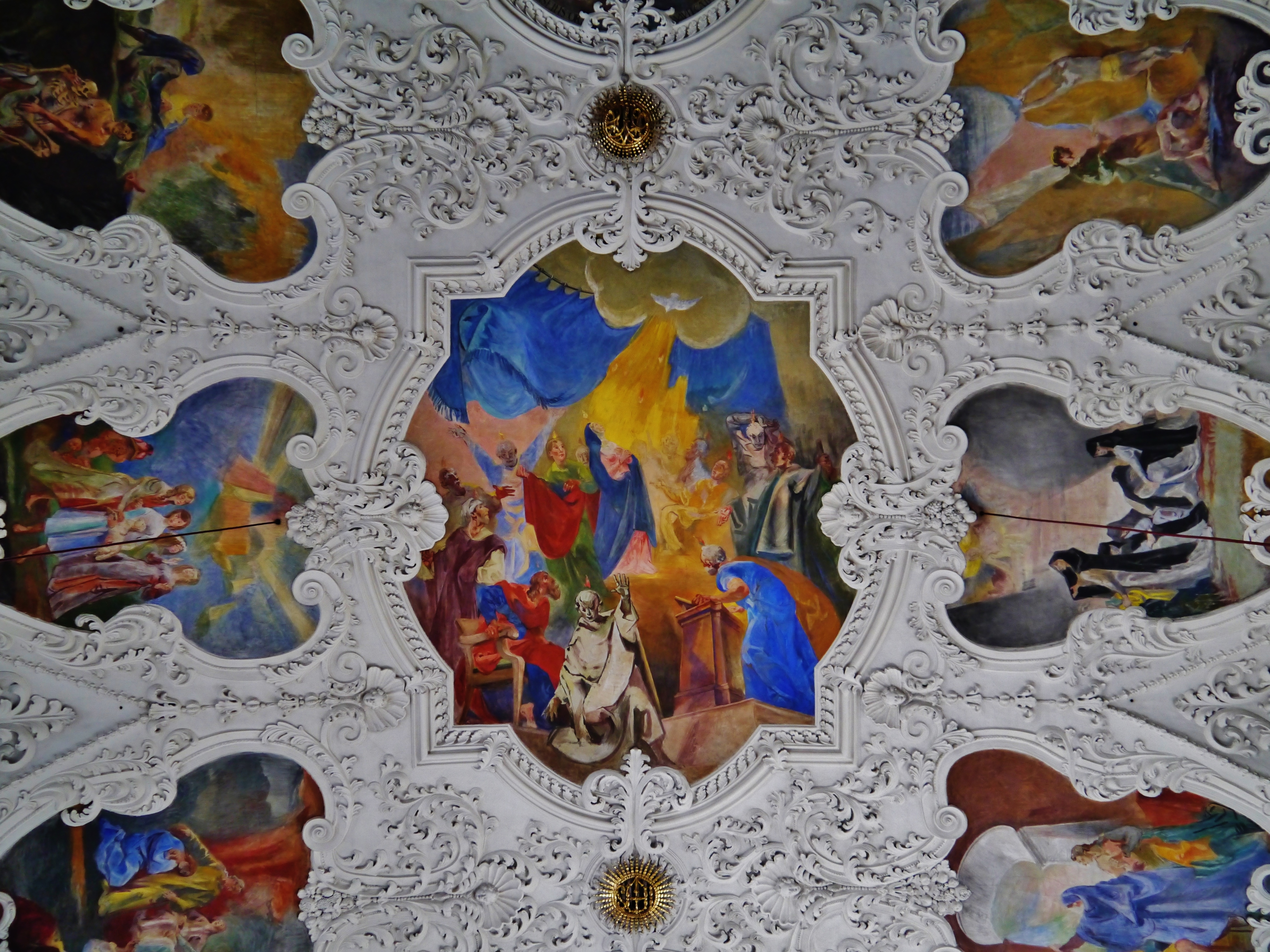 Vault of the Hospital Church of the Holy Ghost, Innsbruck, Tyrol, Austria